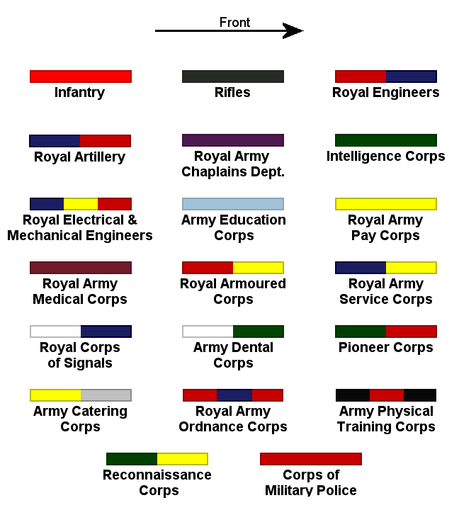 Colored strips which were worn on the upper sleeves of battledress blouses to distinguish different branches of the British Army. Based on information from: Brian Jewell, British Battledress 1937-61, Osprey Publishing Ltd, 1981 and Rosignoli, Guido, Army Badges and Insignia of World War 2, Blandford Press, 1974.